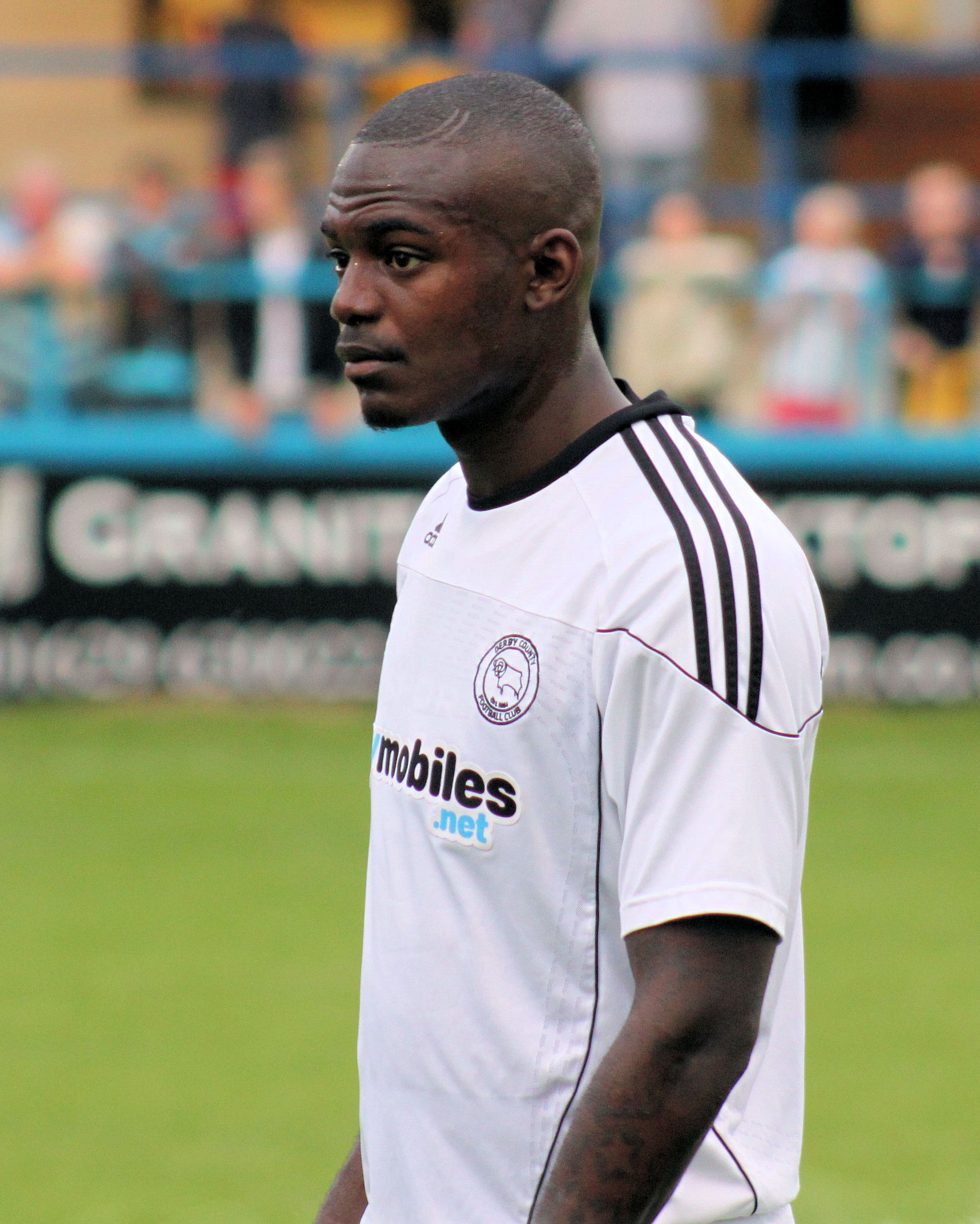 Theo Robinson - Matlock Town vs Derby County XI 26-07-11 110